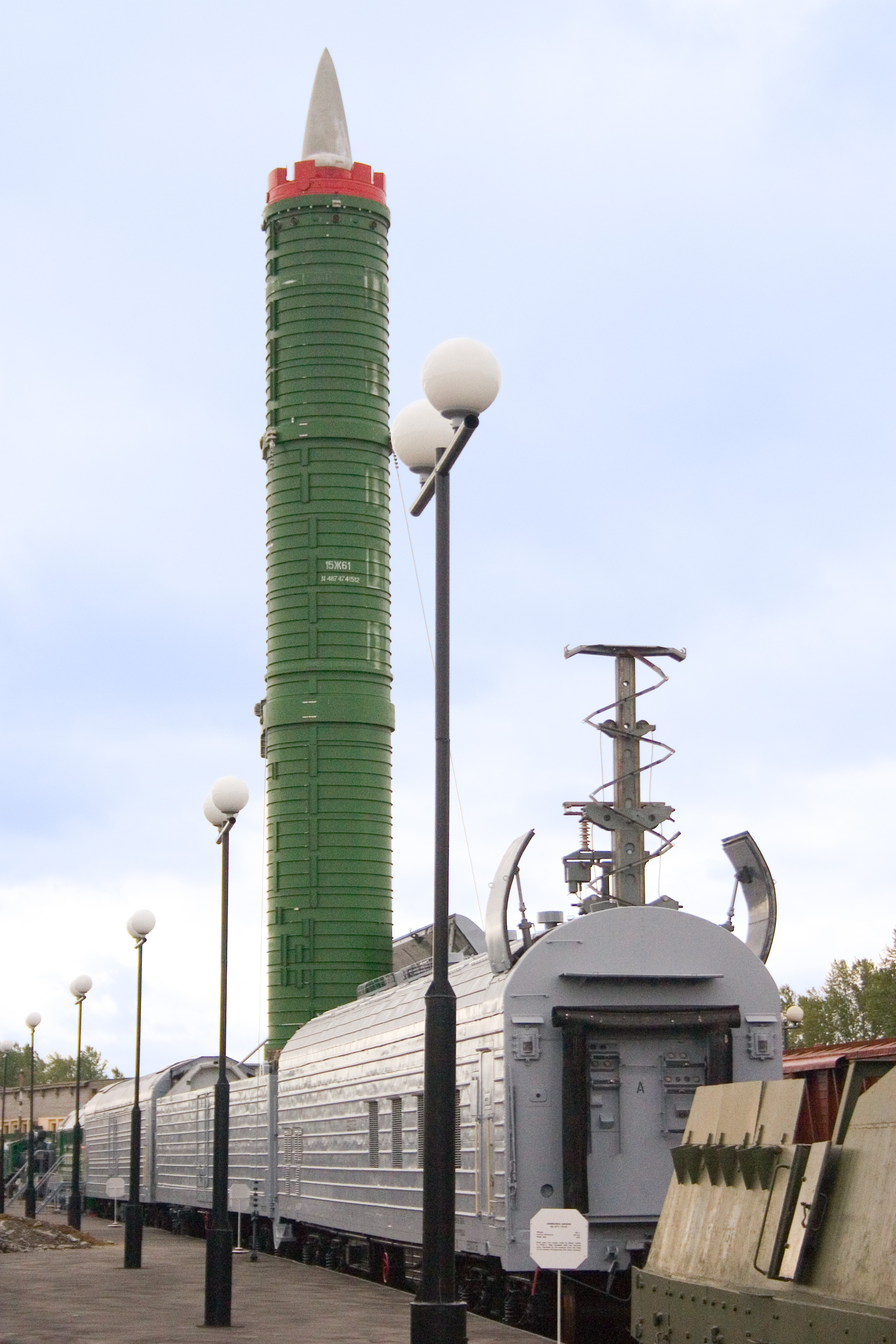 RT-23 ICBM railroad-based complex in Saint Petersburg railway museum